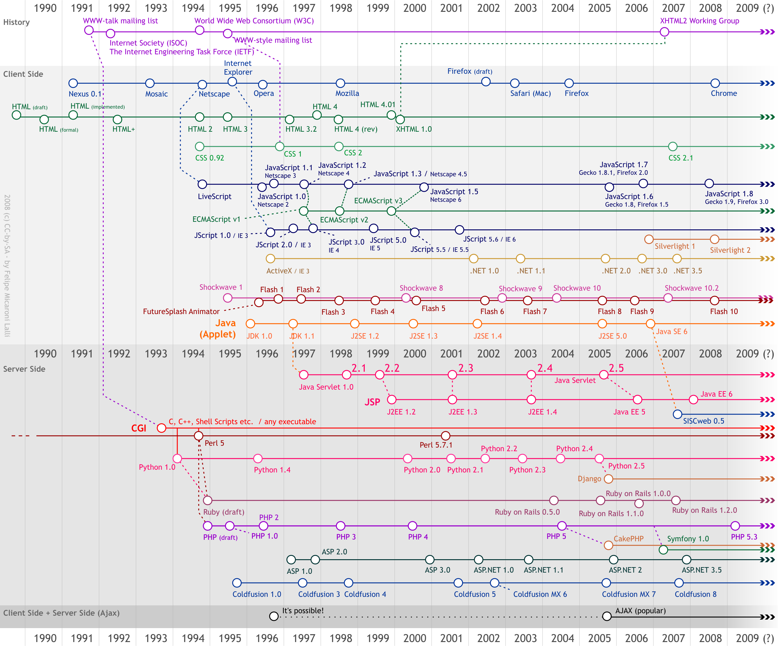 Web development timeline